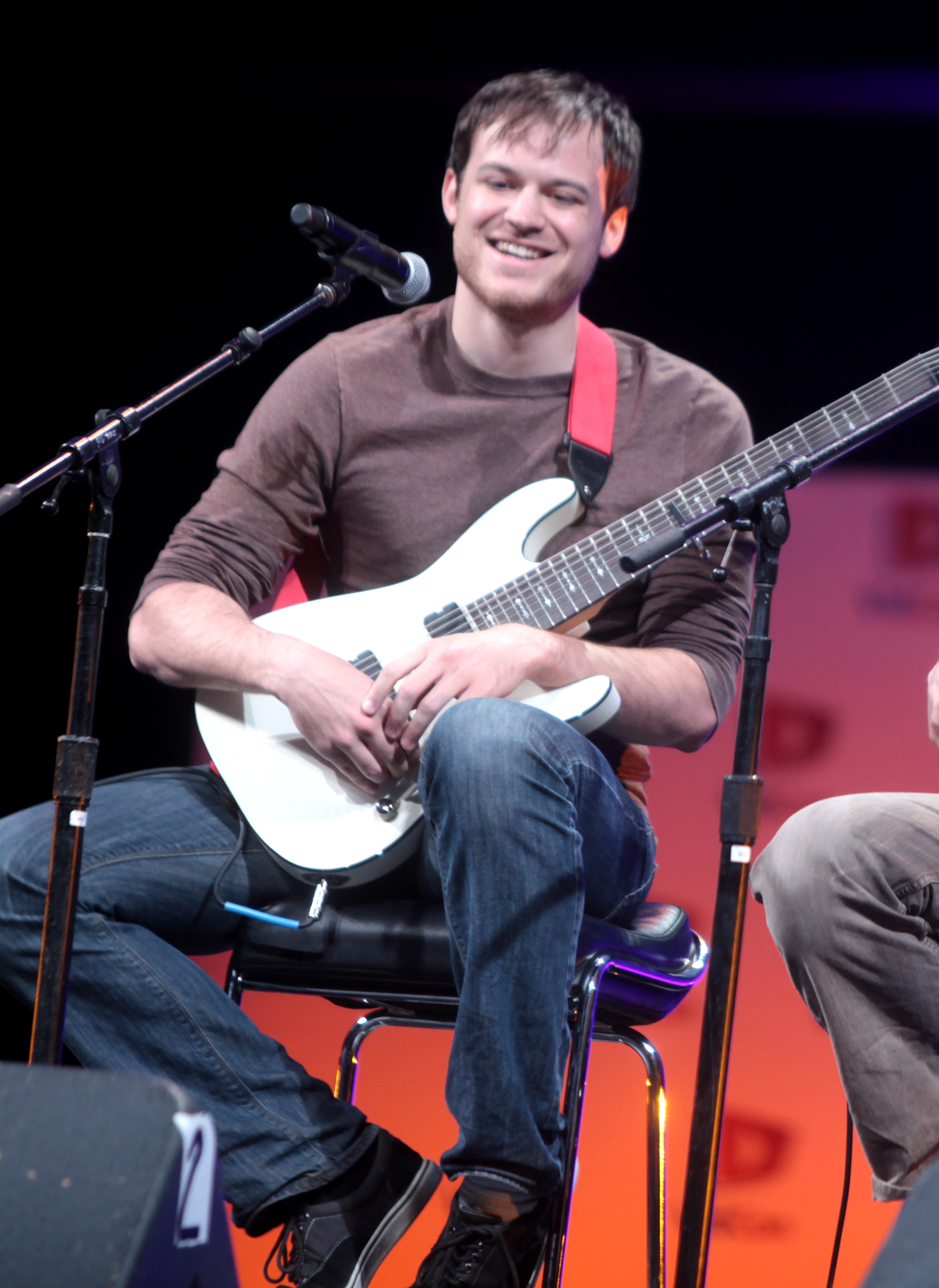 Rob Scallon performing at the 2014 VidCon at the Anaheim Convention Center in Anaheim, California.